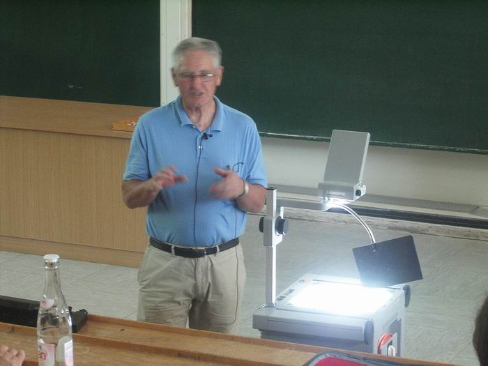 Roy Kerr lecture on world conference 11th Marcell Grossmann Meeting in Berlin, 2006